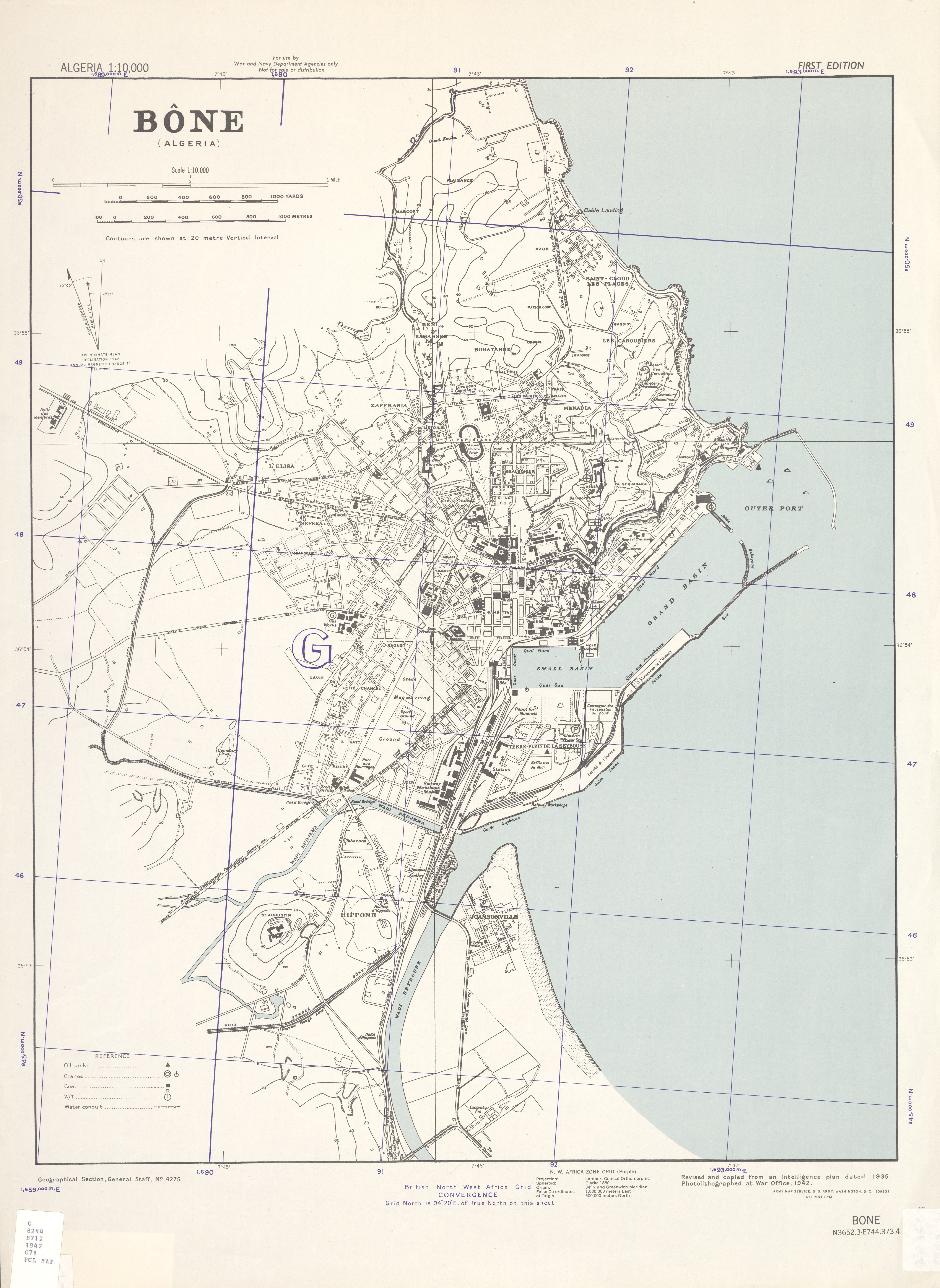 a ww2 map of annaba